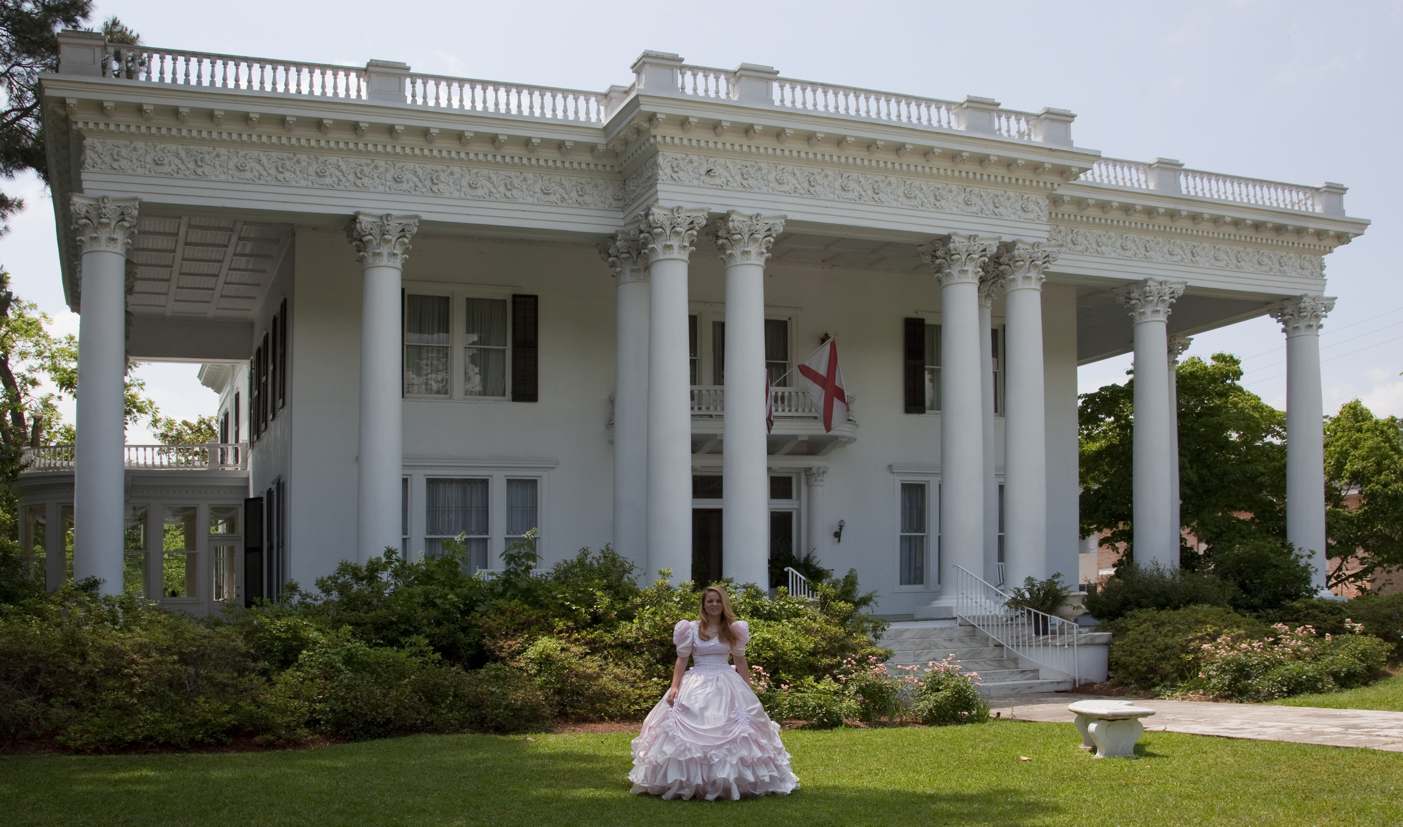 Andrea Michelle Pittman stands in front of the Shorter Mansion, Eufaula, Alabama. The house began as a much simpler structure in 1884, but was extensively remodeled from 1901 to 1906.